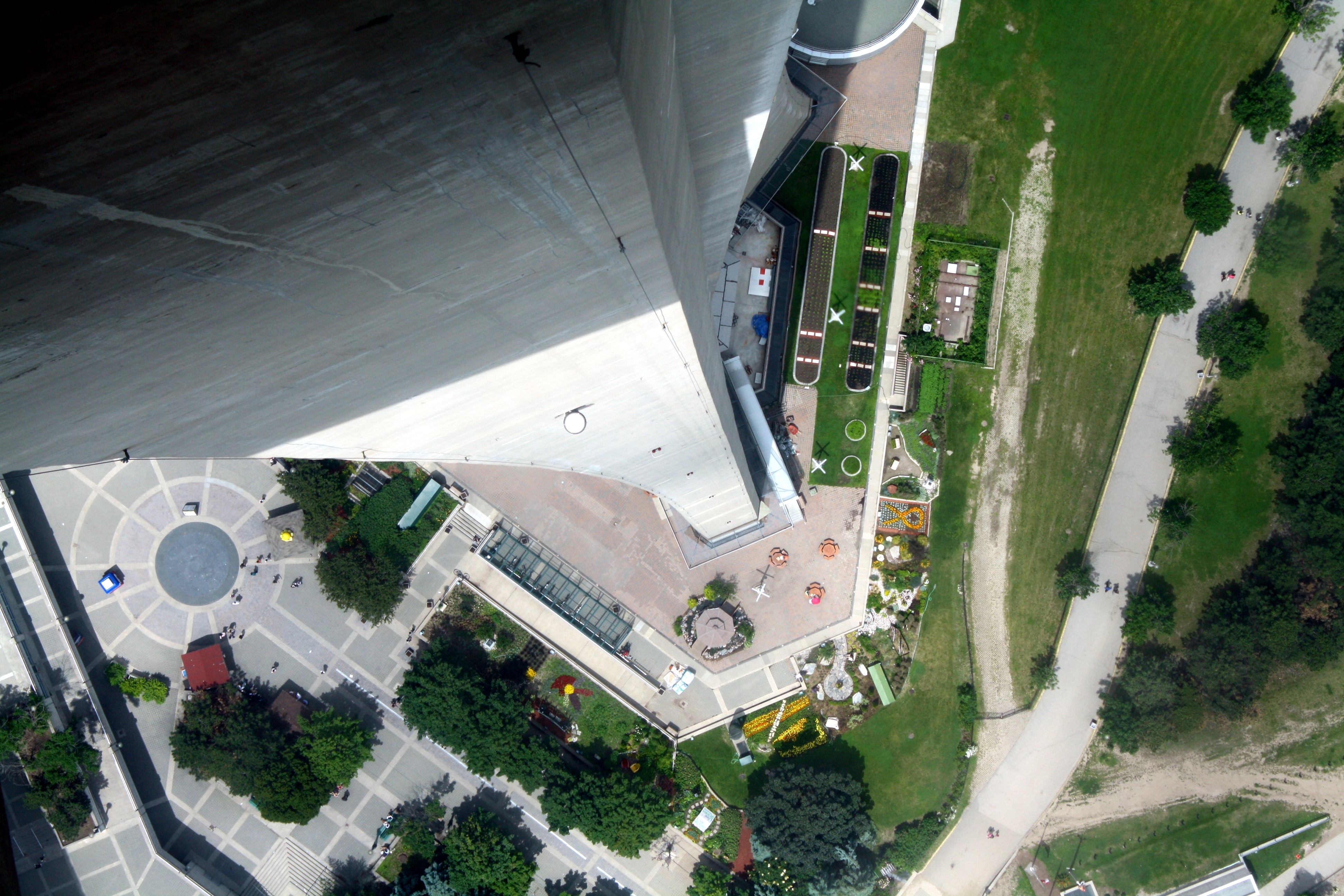 CN Tower Toronto, Canada. View through the glass floor.